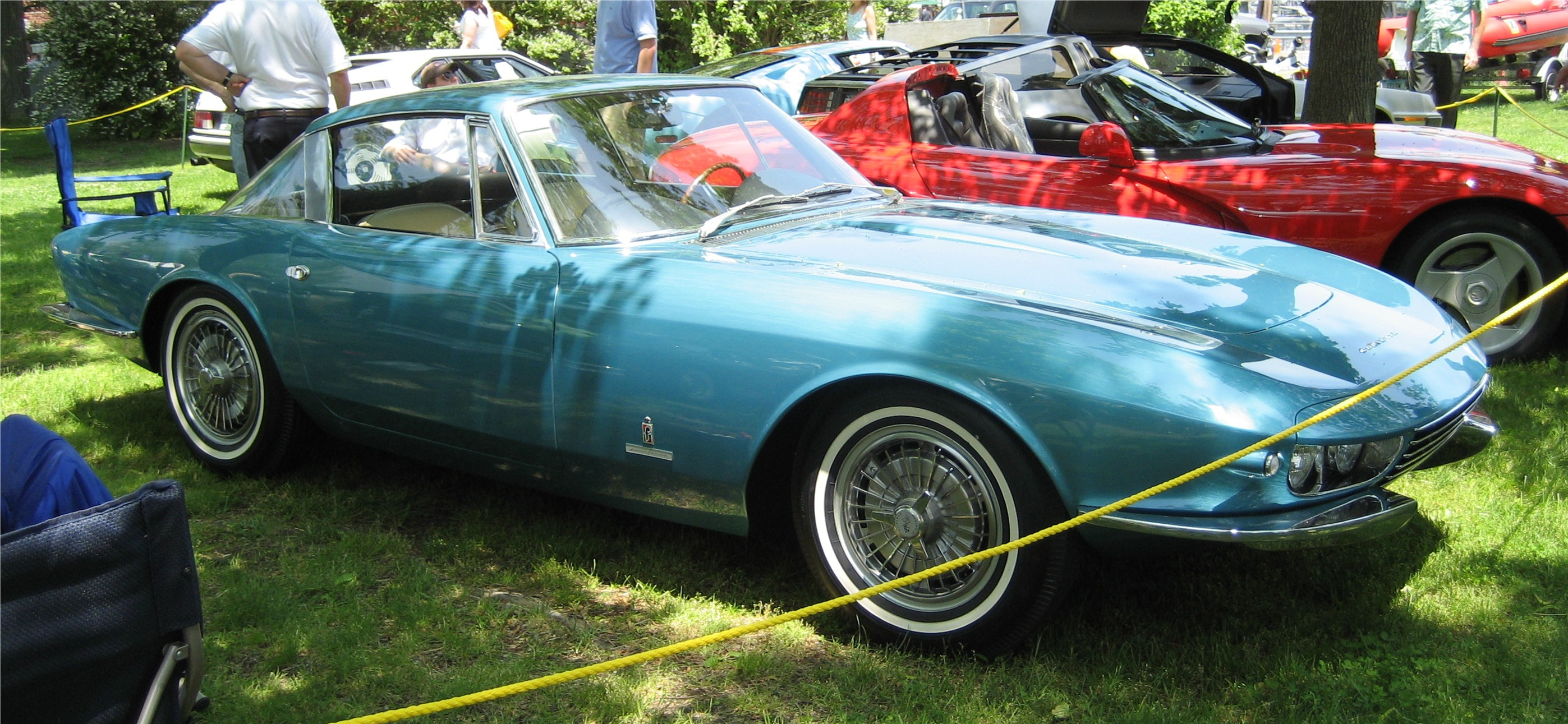 One-of-a-kind 1963 Chevrolet Corvette Rondine coupe by Pinin Farina photographed at the 2008 Greenwich Concours d'Elegance in Greenwich, Connecticut. This example is the only Italian-styled Corvette ever produced.